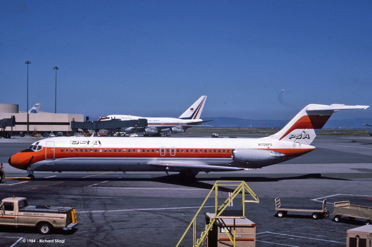 Pacific Southwest Airlines (PSA) Douglas DC-9-30 N706PS at San Francisco International Airport in April 1984